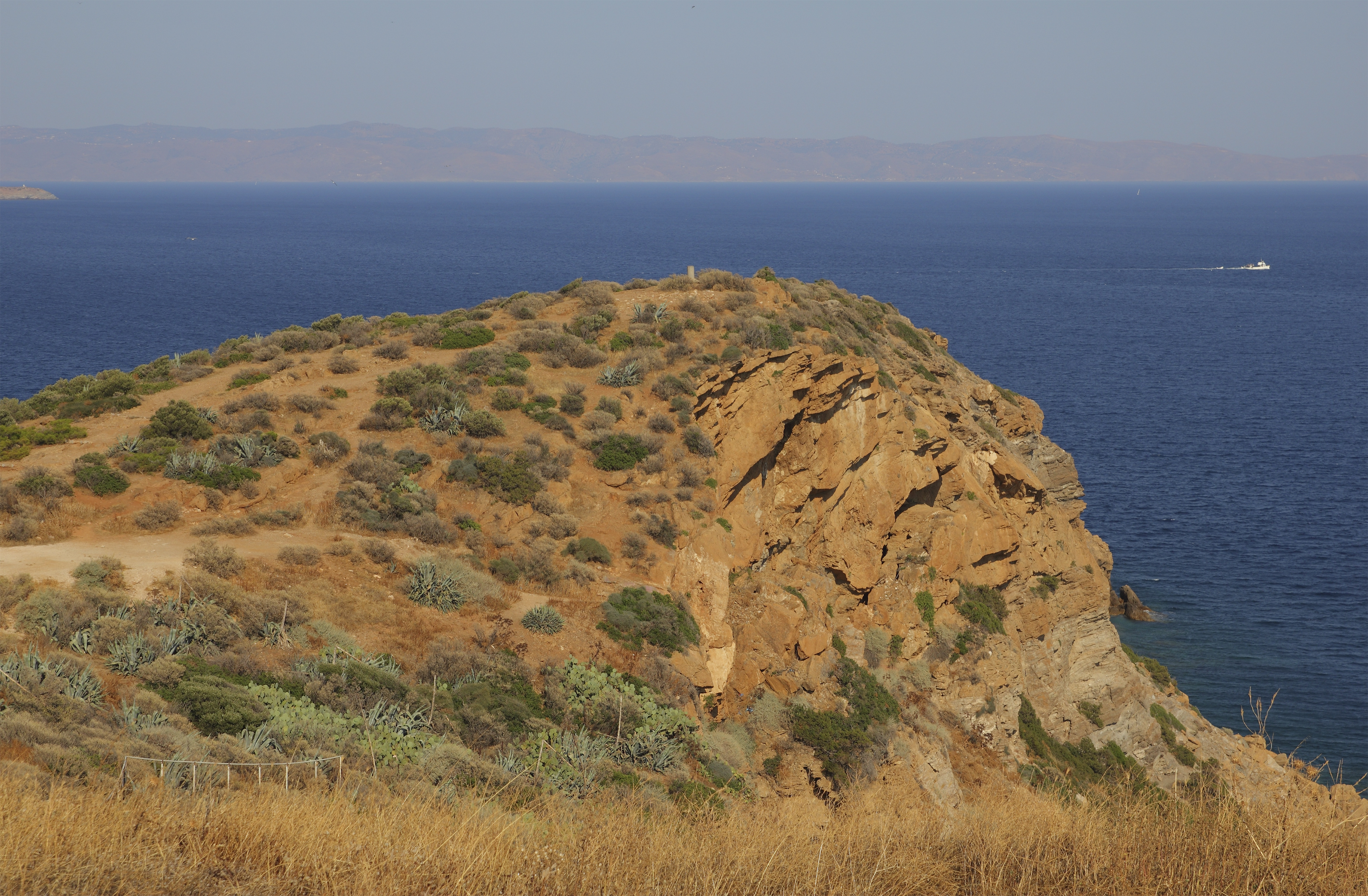 Cape Sounion (Attica, Greece) – view from the Archaeological site